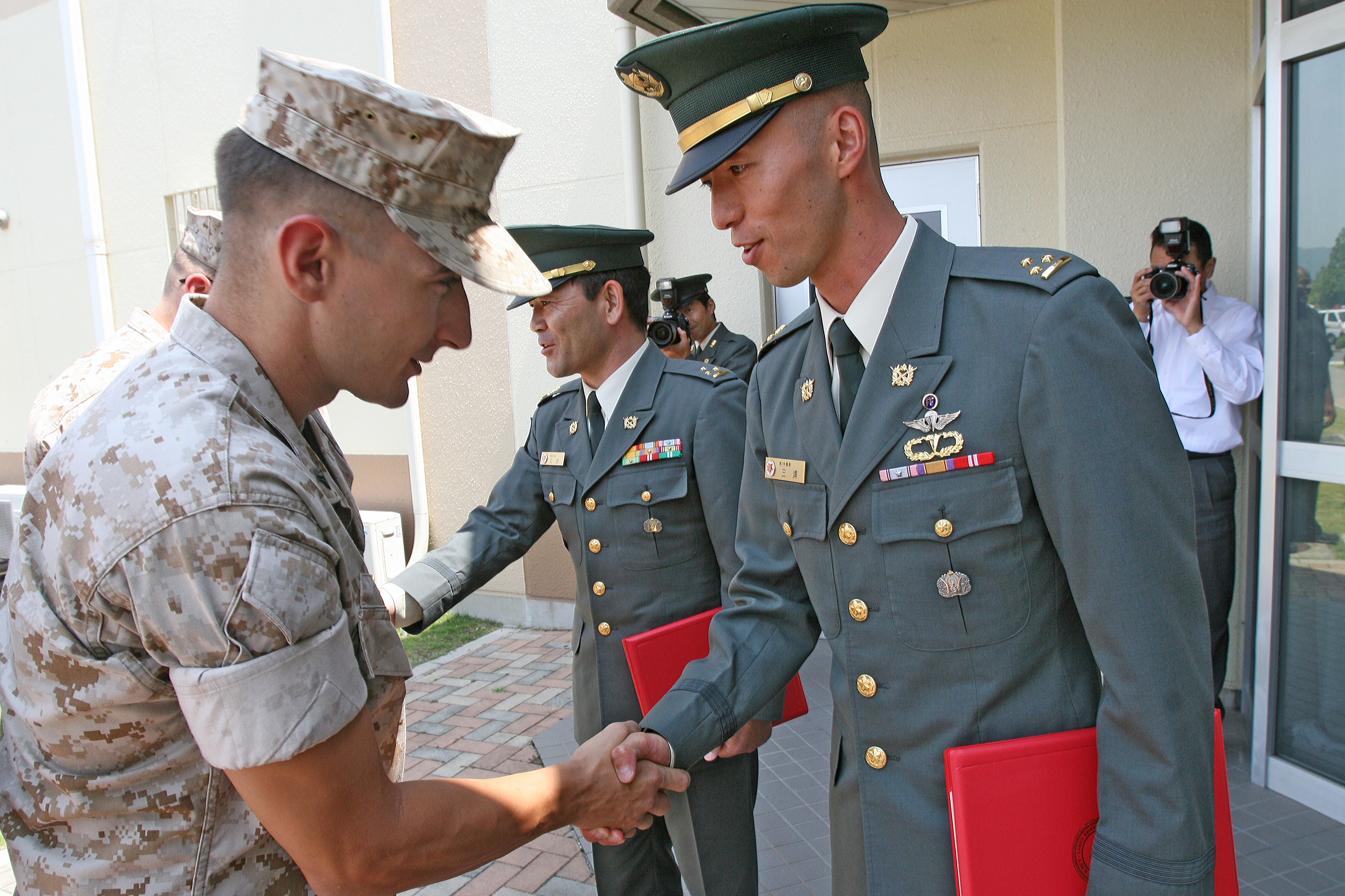 Marines congratulate Capt. Shigeru Miura, Japan Ground Defense Force 1st company commander, and Capt. Minoru Hanada, JGSDF liason for base cluster four, after recieving certificates of commendation at a ceremony held outside the Provost Marshal’s Office here June 17. Both gentlemen recieved their certificates for outstanding support during Active Shield Nine, and evaluation of the air station’s bilateral defense measures.